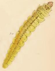 Stainton’s Natural History of the Tineina (1855–1873): Bucculatrix quinquenotella larva